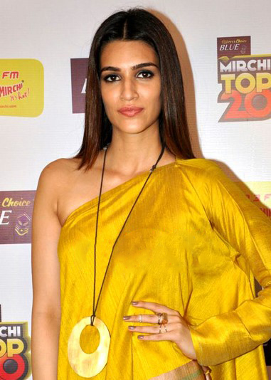 Kriti Sanon promotes Bareilly Ki Barfi.